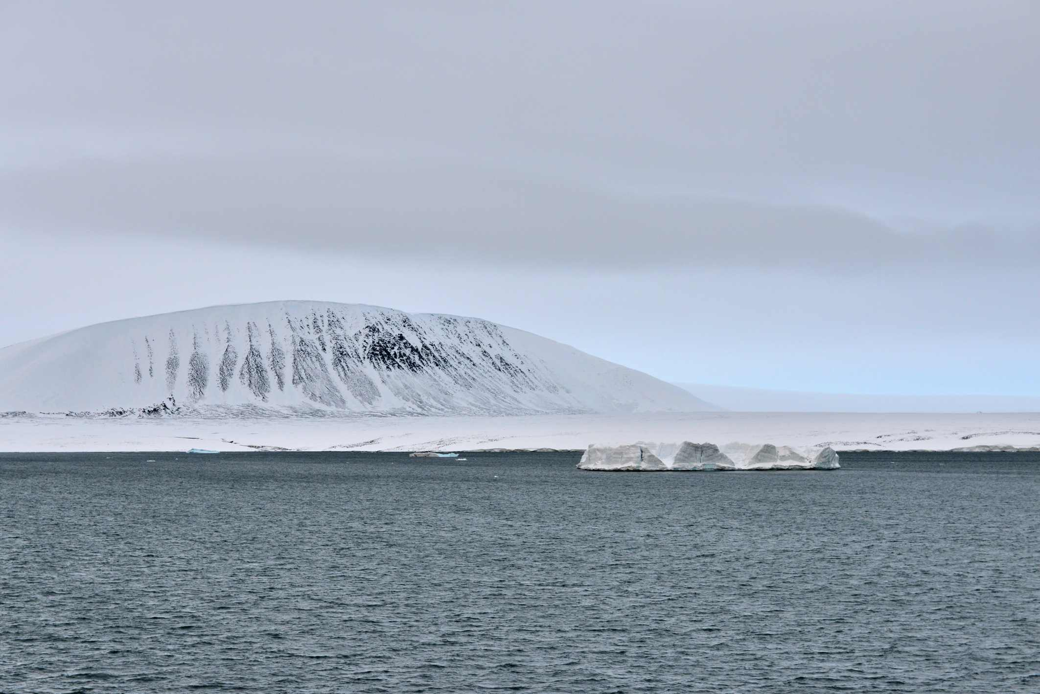 Krenkel Bay (Komsomolets Island, Severnaya Semlya, Russia; 80°30’N, 96°44‘E)